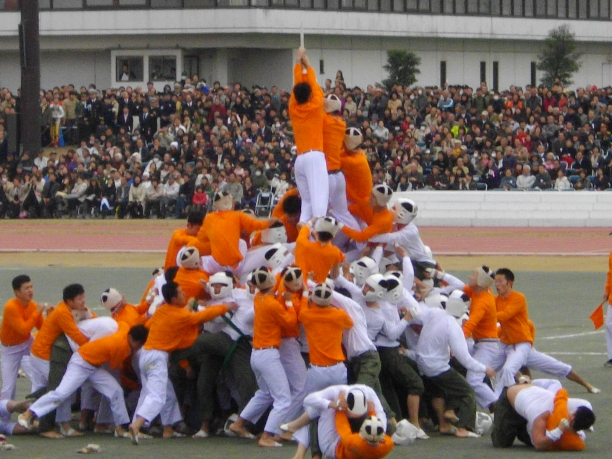 NDAJ Bo-taoshi(Pole Capturing Competition)